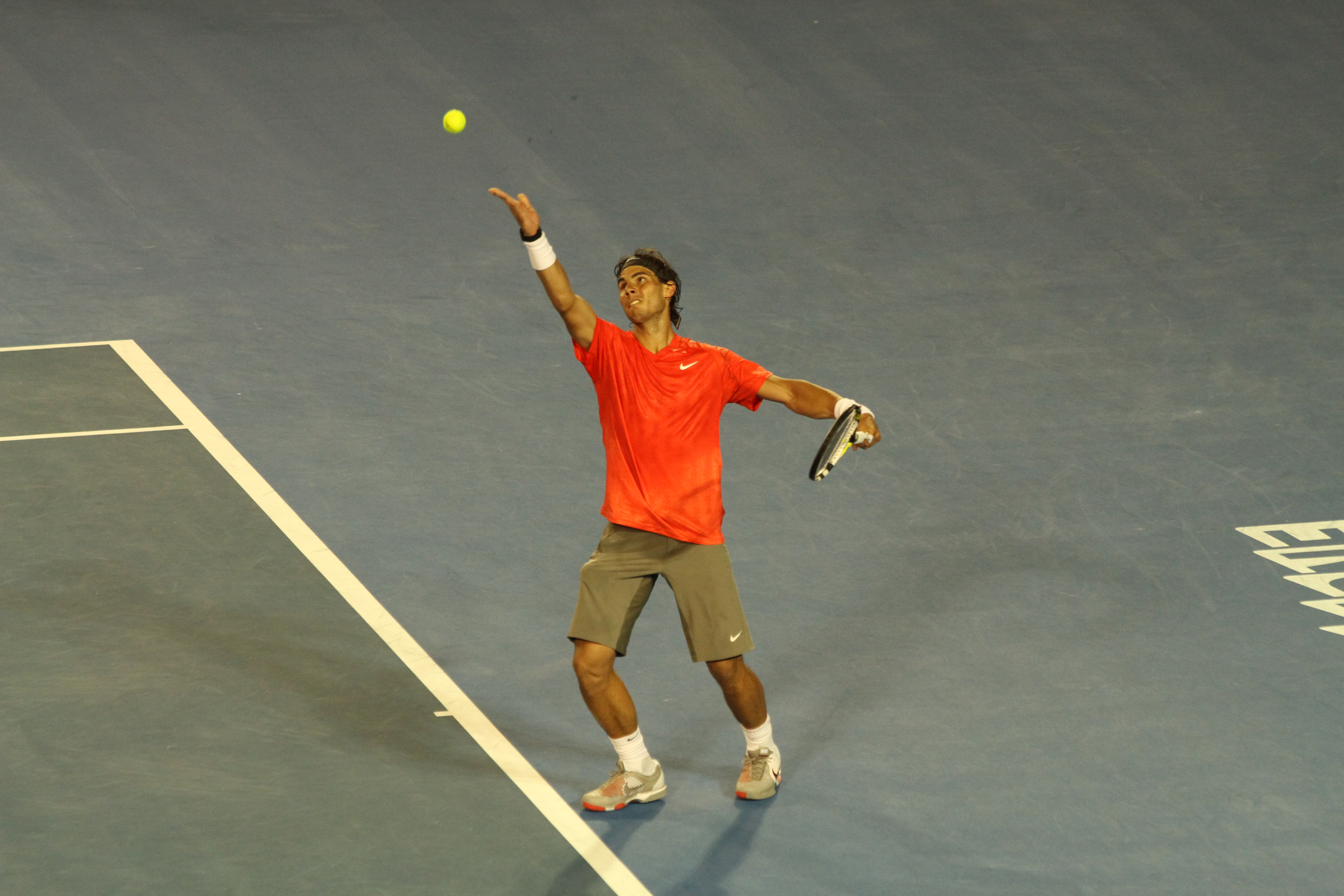 Rafael Nadal at the 2011 Australian Open